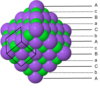 Space-filling model of the NaCl crystal structure oriented along the body diagonal of the cell and showing the stacking of anion and cation layers.